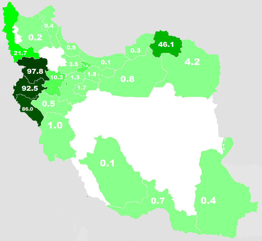 According to the survey carried out by Ministry of Culture of İran in 2010: provinces of mother tongue speaker of Iranian Kurds and their proportions among population in those provinces.